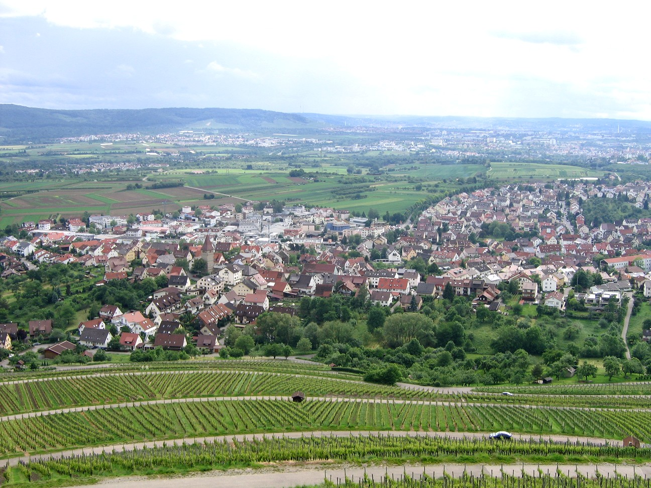 Korb in Württemberg, Germany, viewed from the Hörnleskopf Mussklprozz, own picture, taken on 2006-05-27